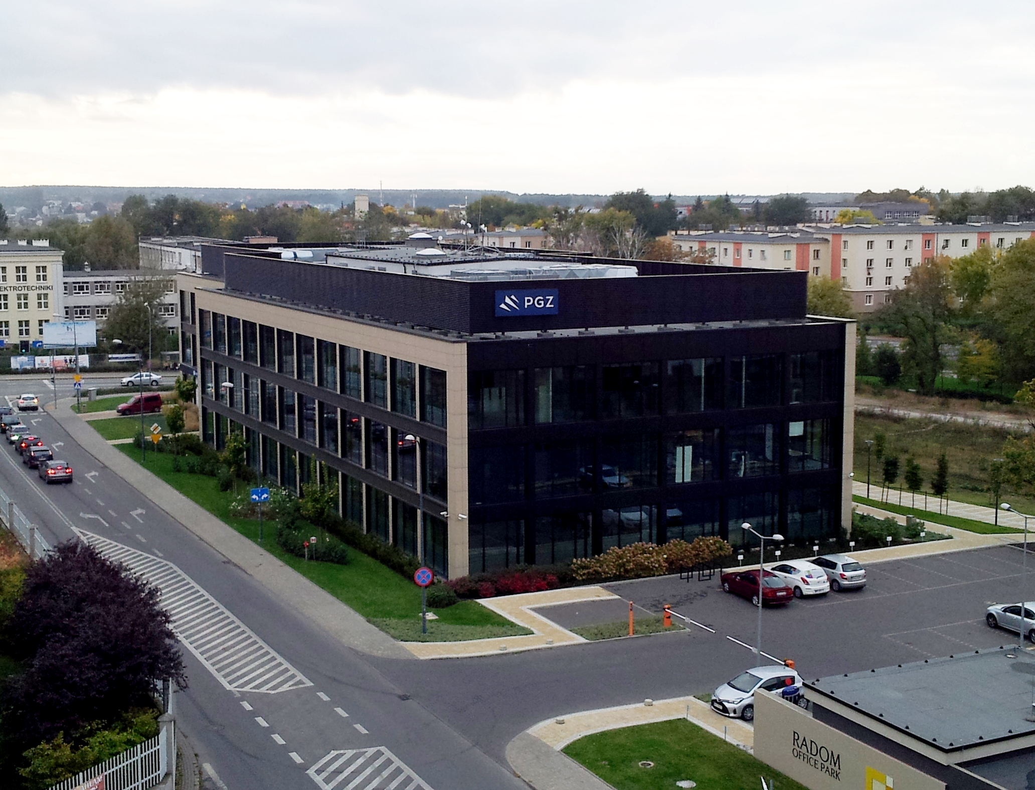 24 Malczewskiego Street, Radom, Poland